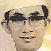 Y. B. Dato Patinggi Haji Abdul Rahman Ya’kub